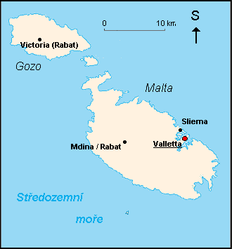 Map of Malta with czech description